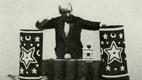 Still from Georges Méliès's 1896 film Séance de prestidigitation (Conjuring), identified as such in July 2015 (see Laurent Mannoni, "Film lithographique da Une séance de prestidigitation di Georges Méliès," Il Cinema Ritrovato, Cineteca di Bologna).